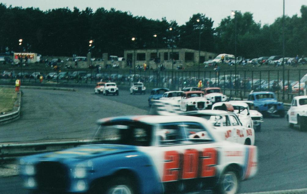 Action from an 'all-Rover' meeting at Ringwood Raceway